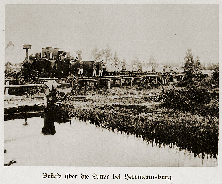 Germany railroads militarymaneuvers Bridge over the Lutter River at Herrmannsburg